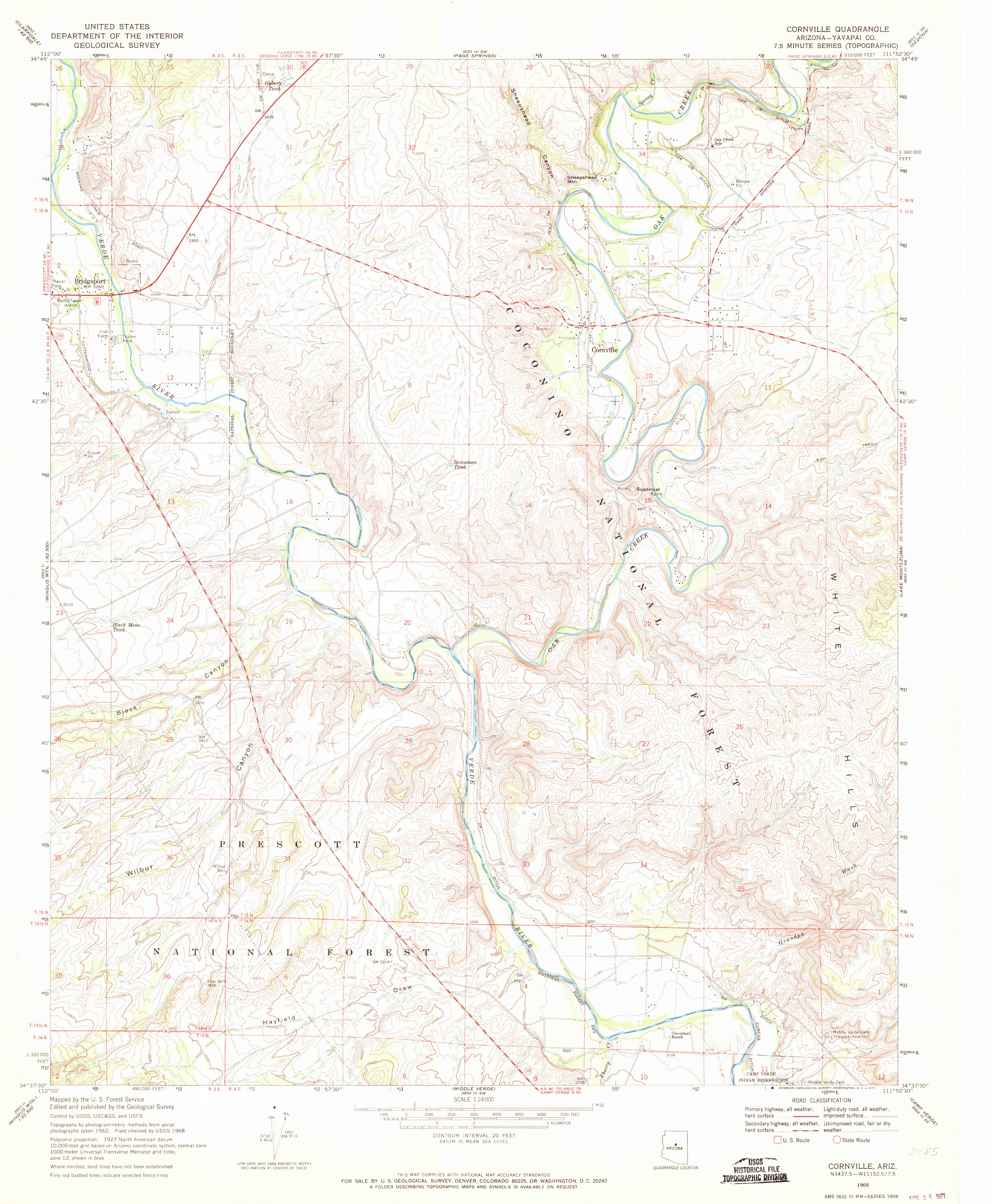 Topographic sheet by the United States Geological Survey. 1968 edition of Cornville Quadrangle.